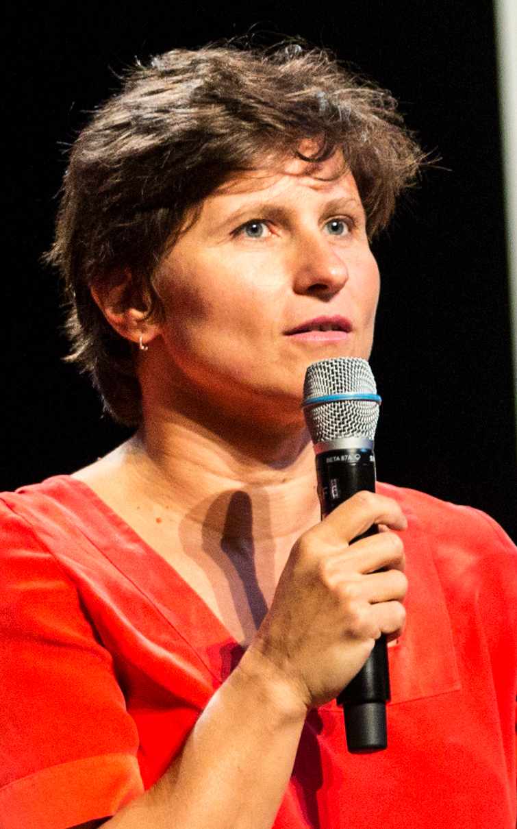 Roxana Mărăcineanu, Minister of Sports of France, during the lauching of "Sciences2024" at the École Polytechnique in preparation of Paris 2024 Summer Olympics.